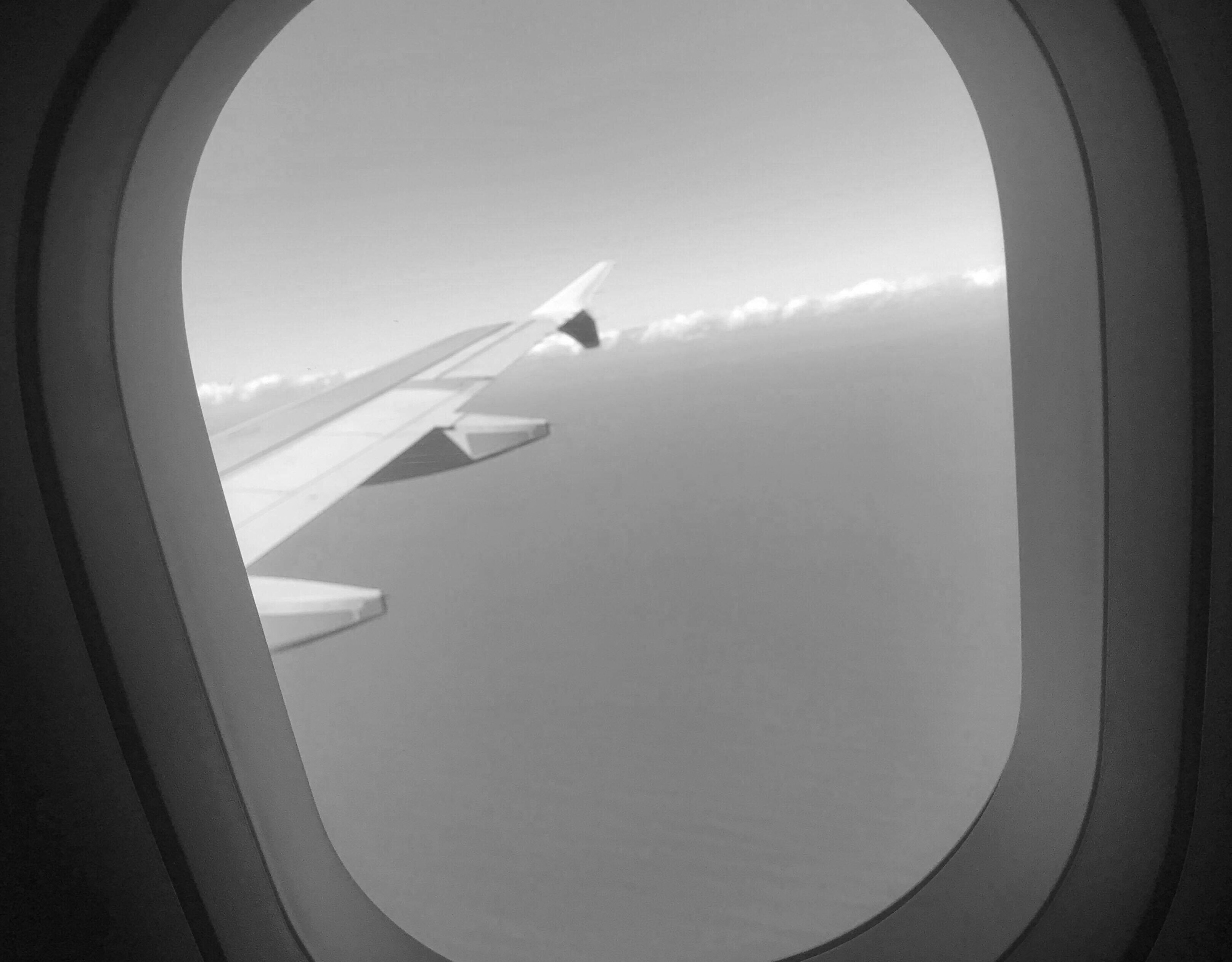 Inflight over Pacific ocean. Airbus A320-200 Jetstar Airways. Sydney (SYD / YSSY) - Gold Coast (OOL / YBCG). 09.07.2018